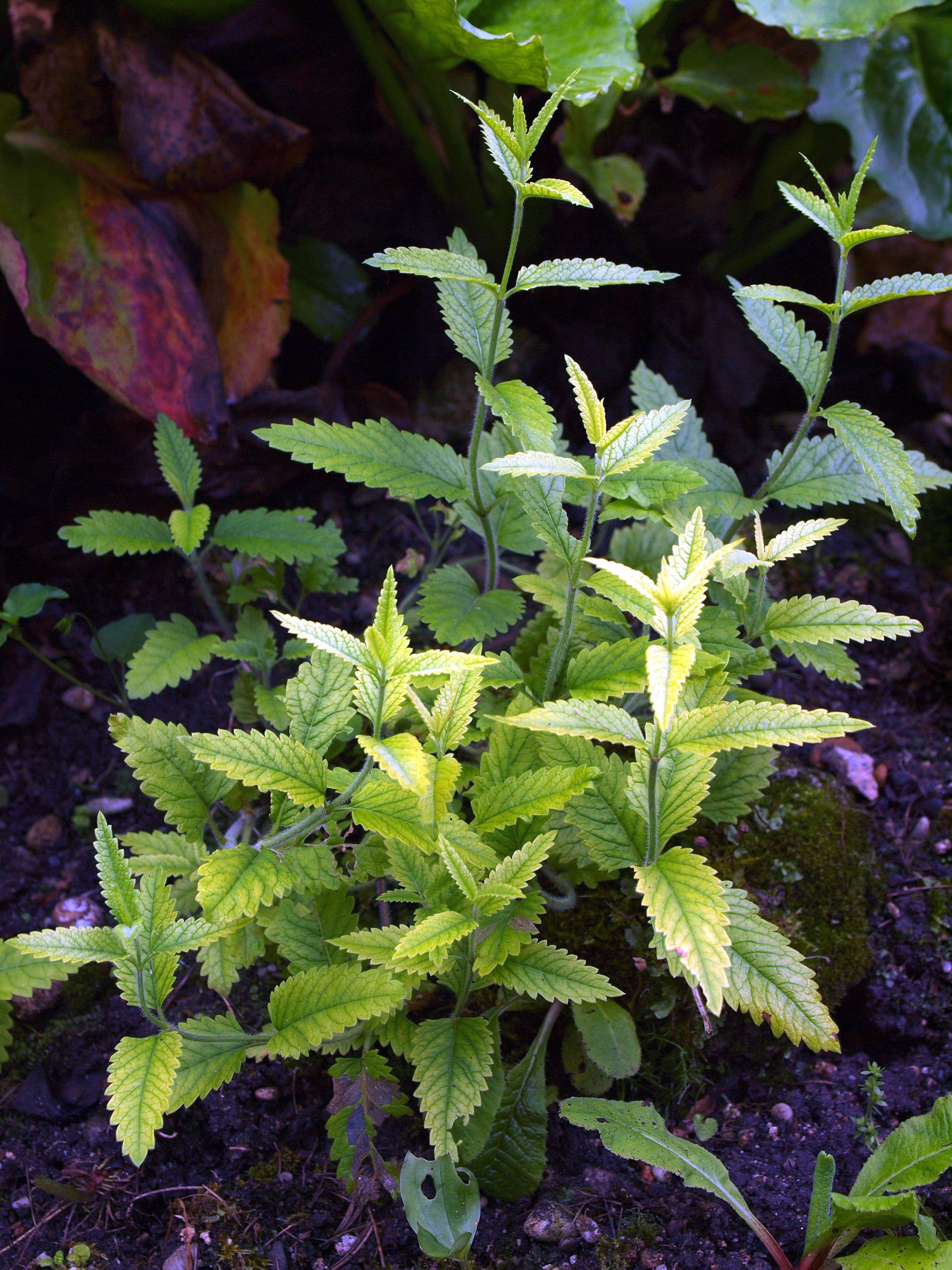 Betonica betoniciflora